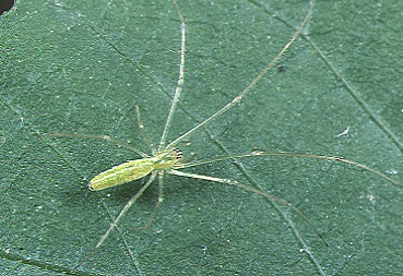 female Tetragnatha tanigawai from Okinawa.